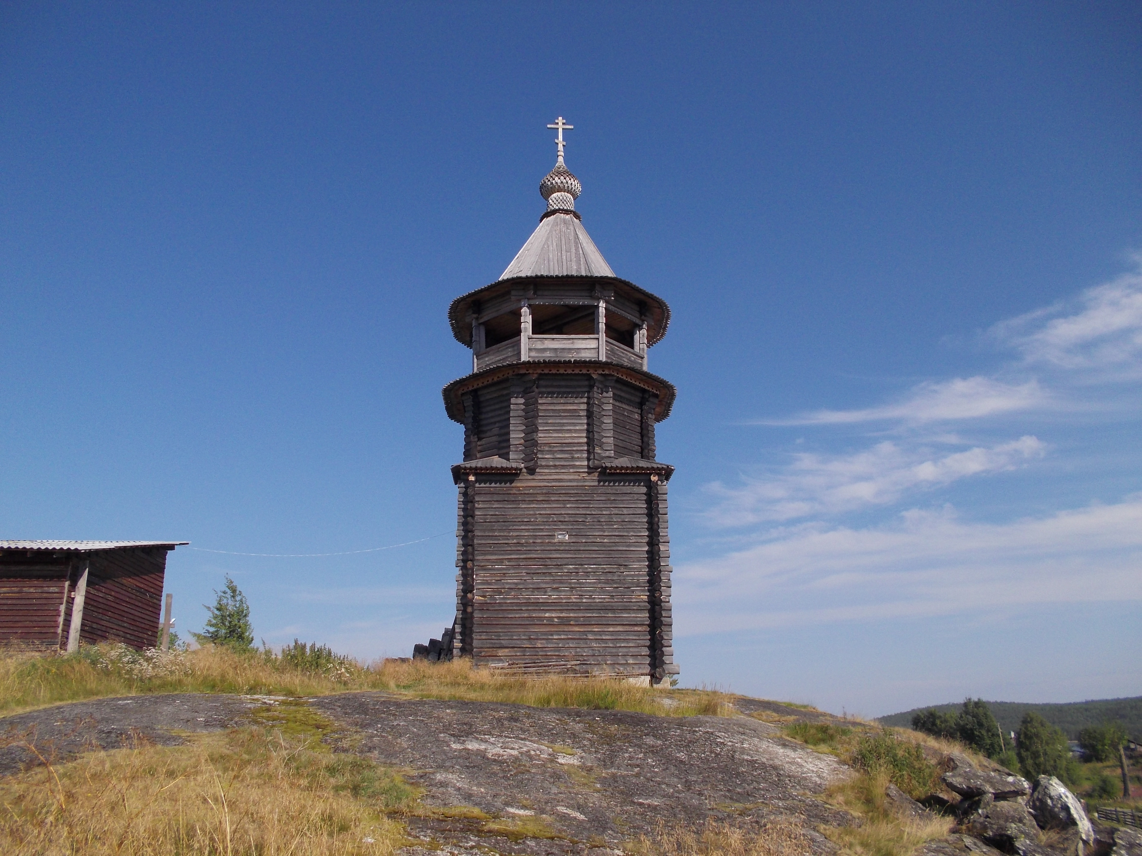 Chupa church St. Varlaam Keretsky